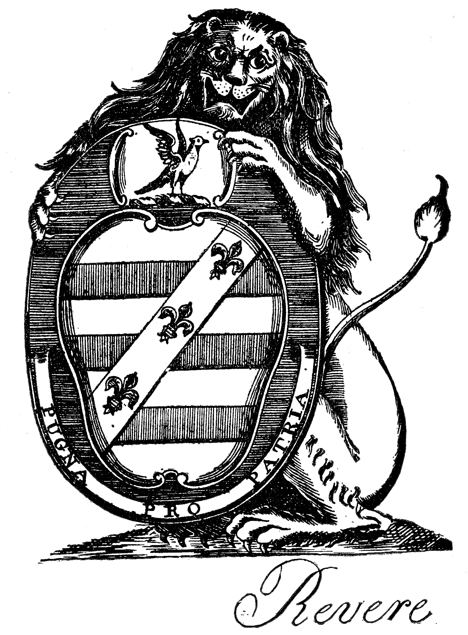 Revere Coat-of-Arms Engraved by and on a plate made by Paul Revere from the ancestral seal